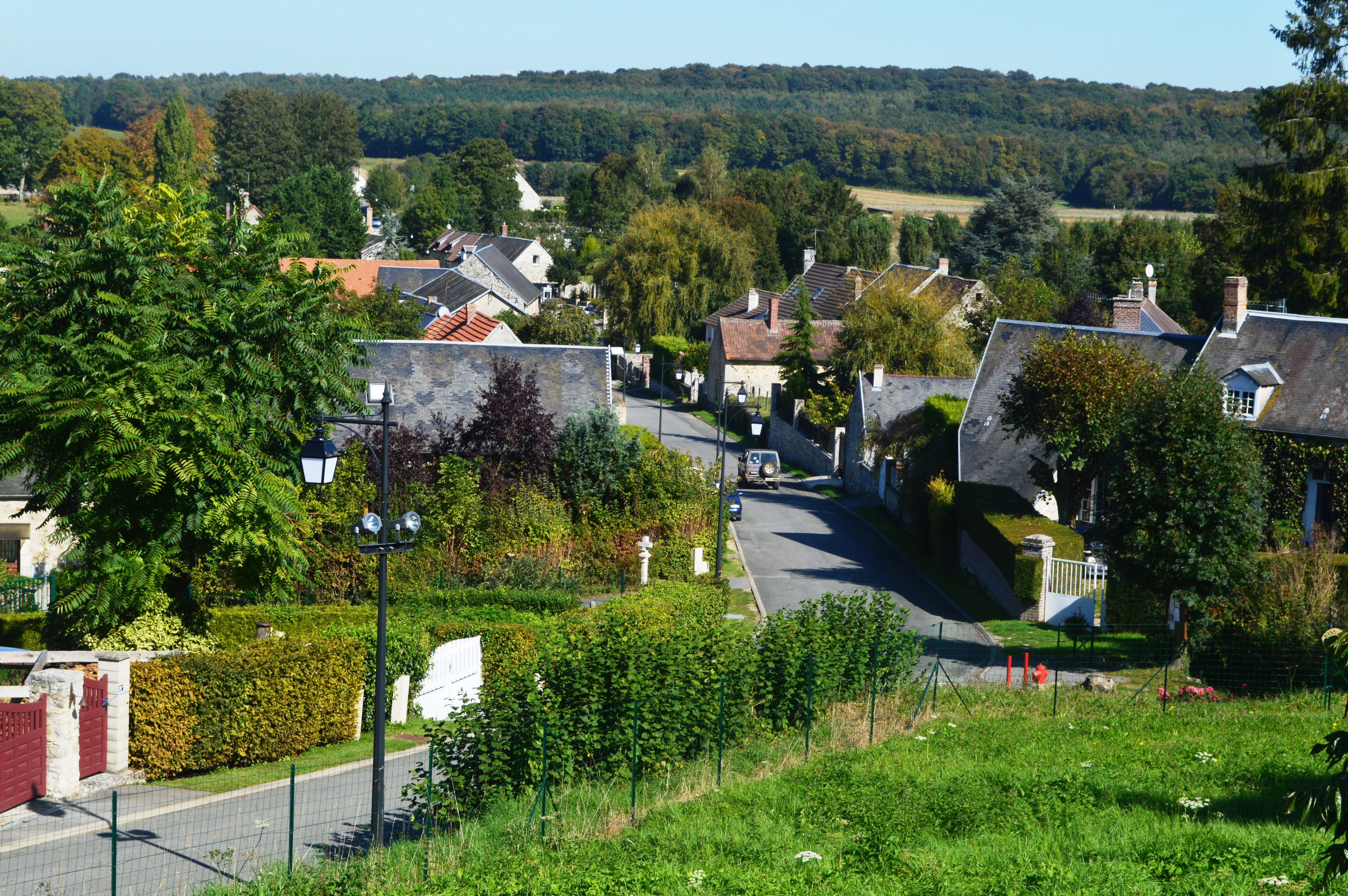 General View of Ancienville